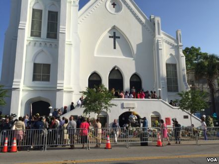 People gather ahead of worship services at the Emanuel AME Church in Charleston, South Carolina, June 21, 2015